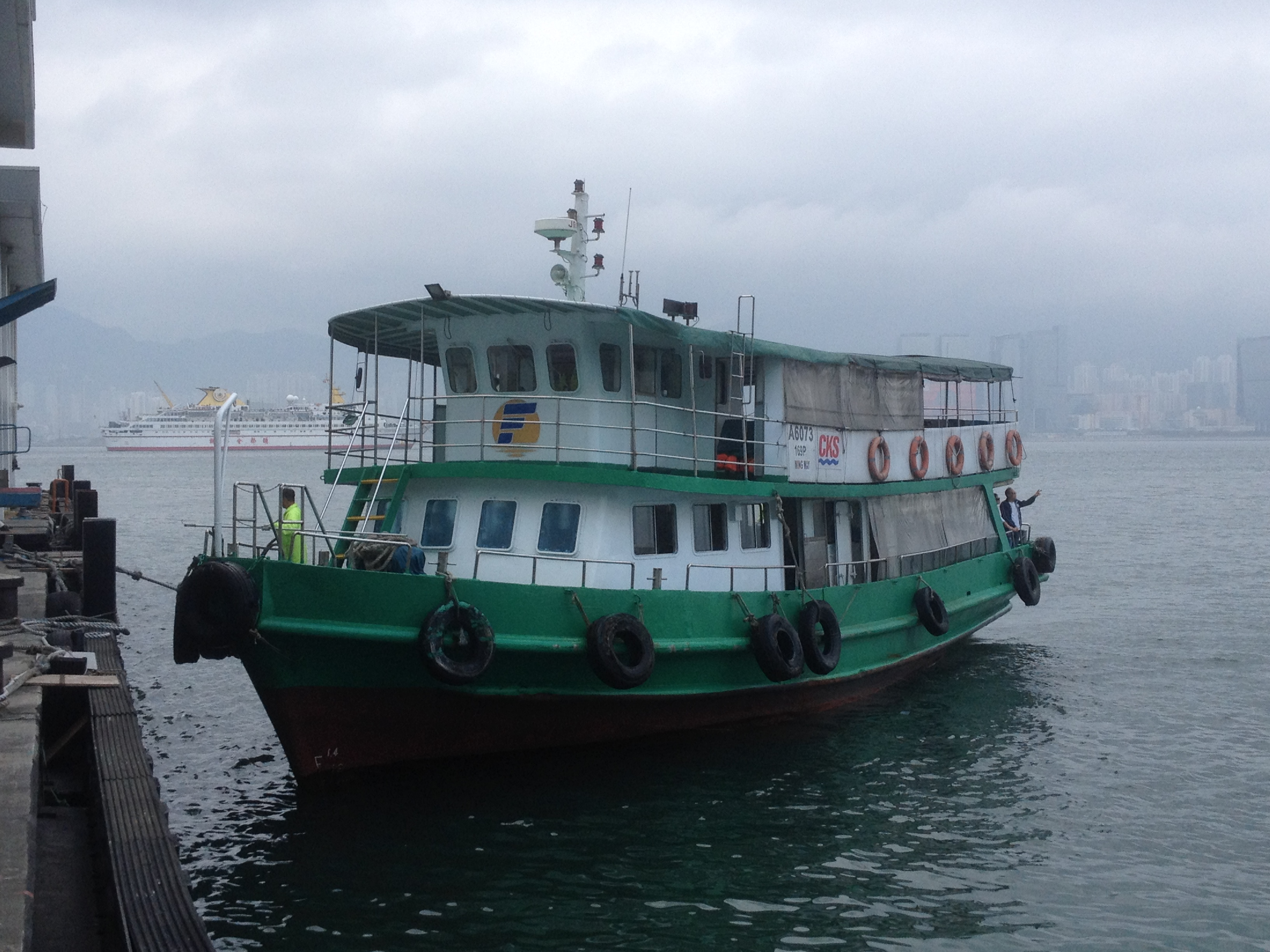 This photo is taken in North Point Ferry Pier.